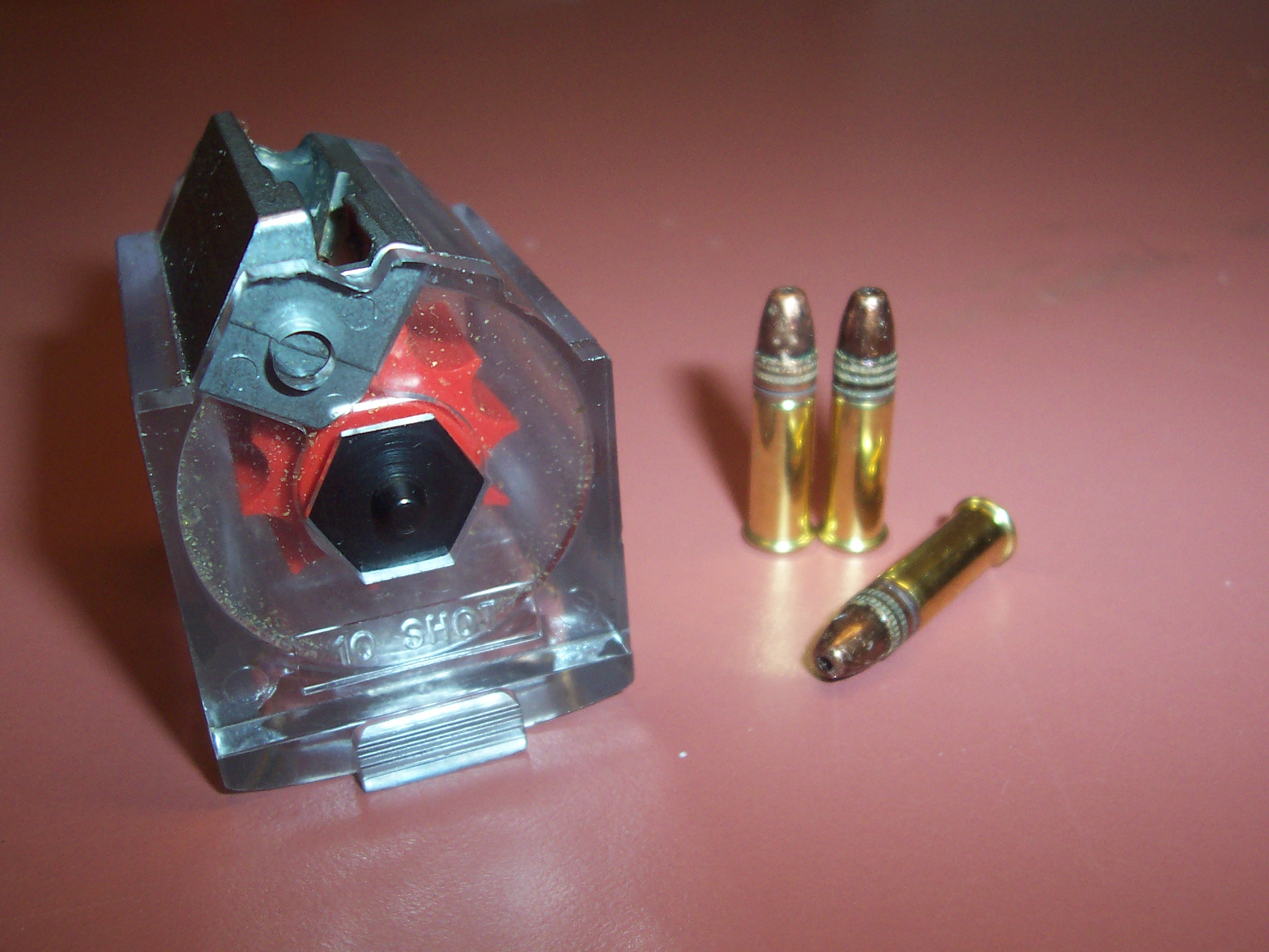 This is a picture of a Ruger 10/22 rifle rotary magazine. The magazine and picture are entirely mine.